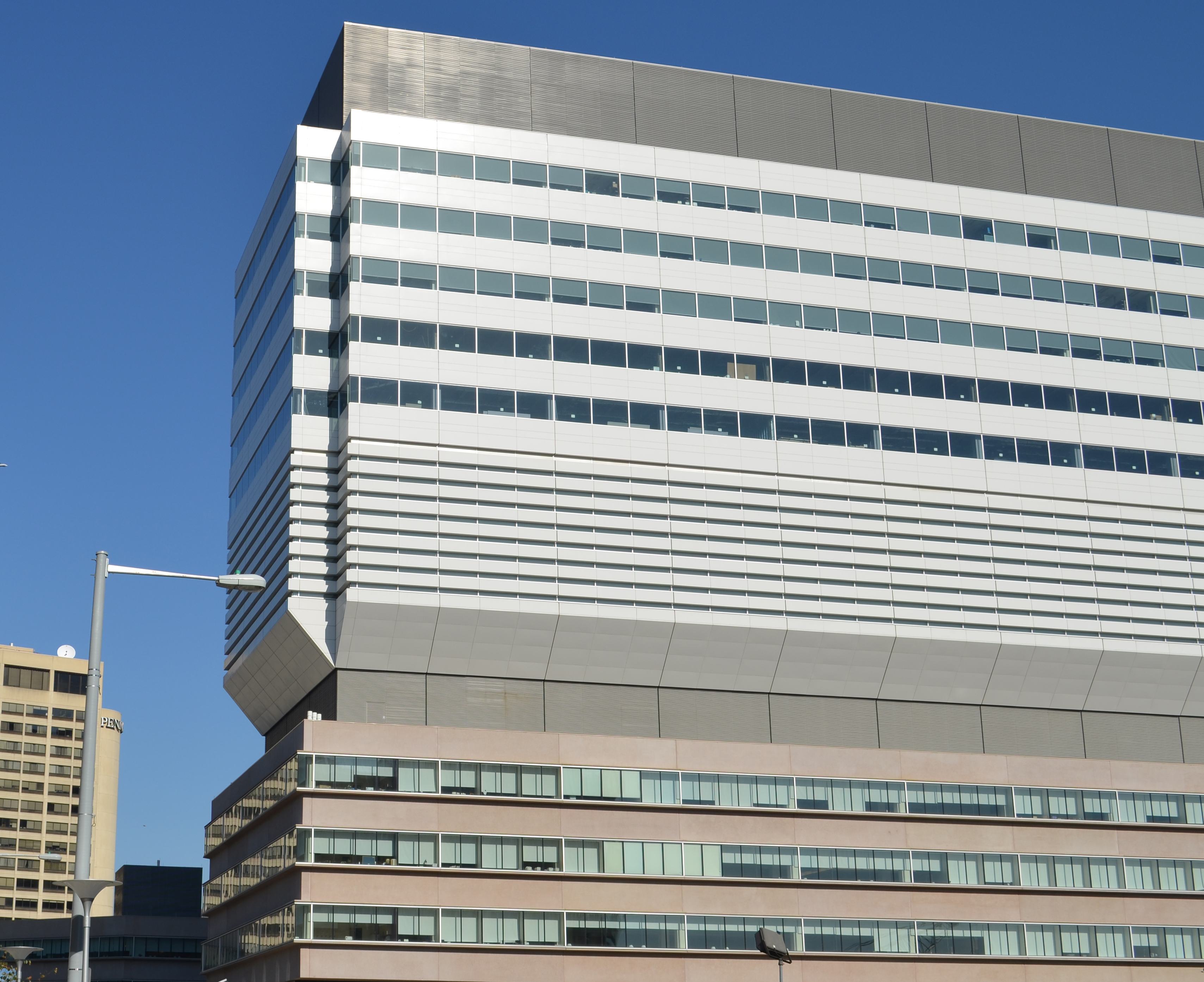 This is a photograph of the Translational Research Center (TRC) and Roberts Proton Therapy Center (RPTC) of the Perelman School of Medicine at the University of Pennsylvania in Philadelphia, PA.